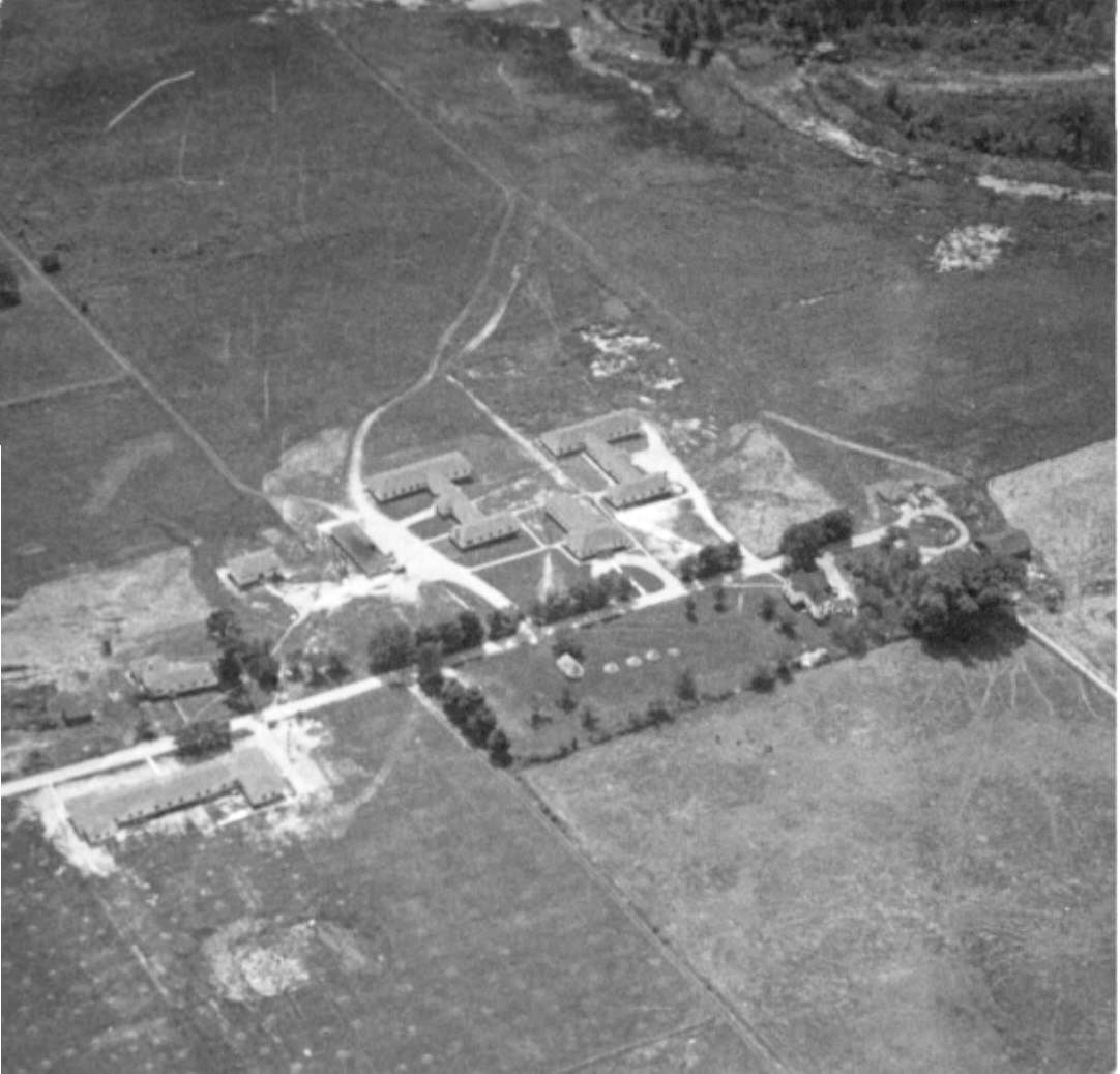 Camp X, a paramilitary and commando training installation in Whitby/Oshawa, Ontario.